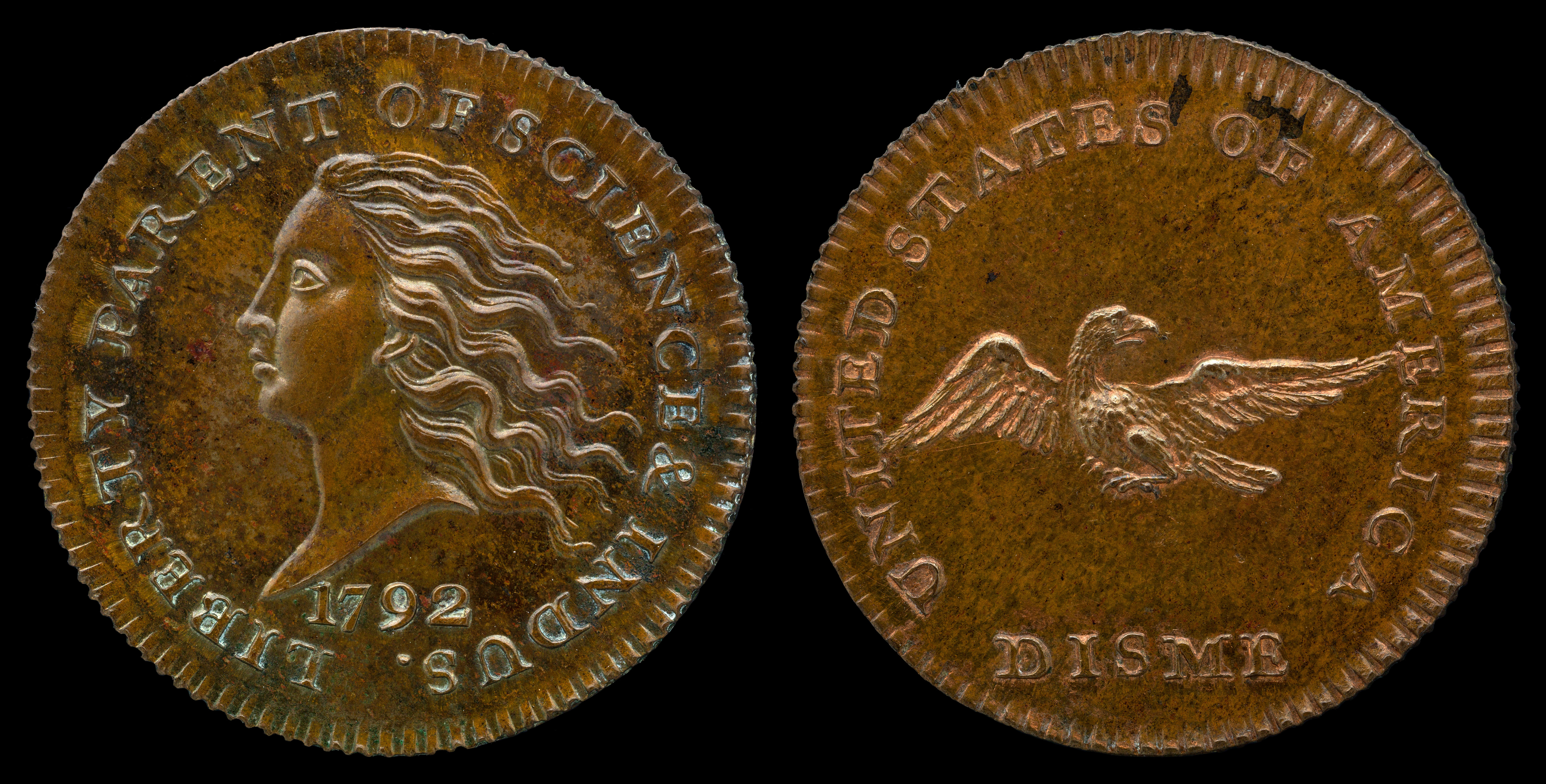 1792-10C-Pattern Disme Copper (J-10)JN2015-6814-15